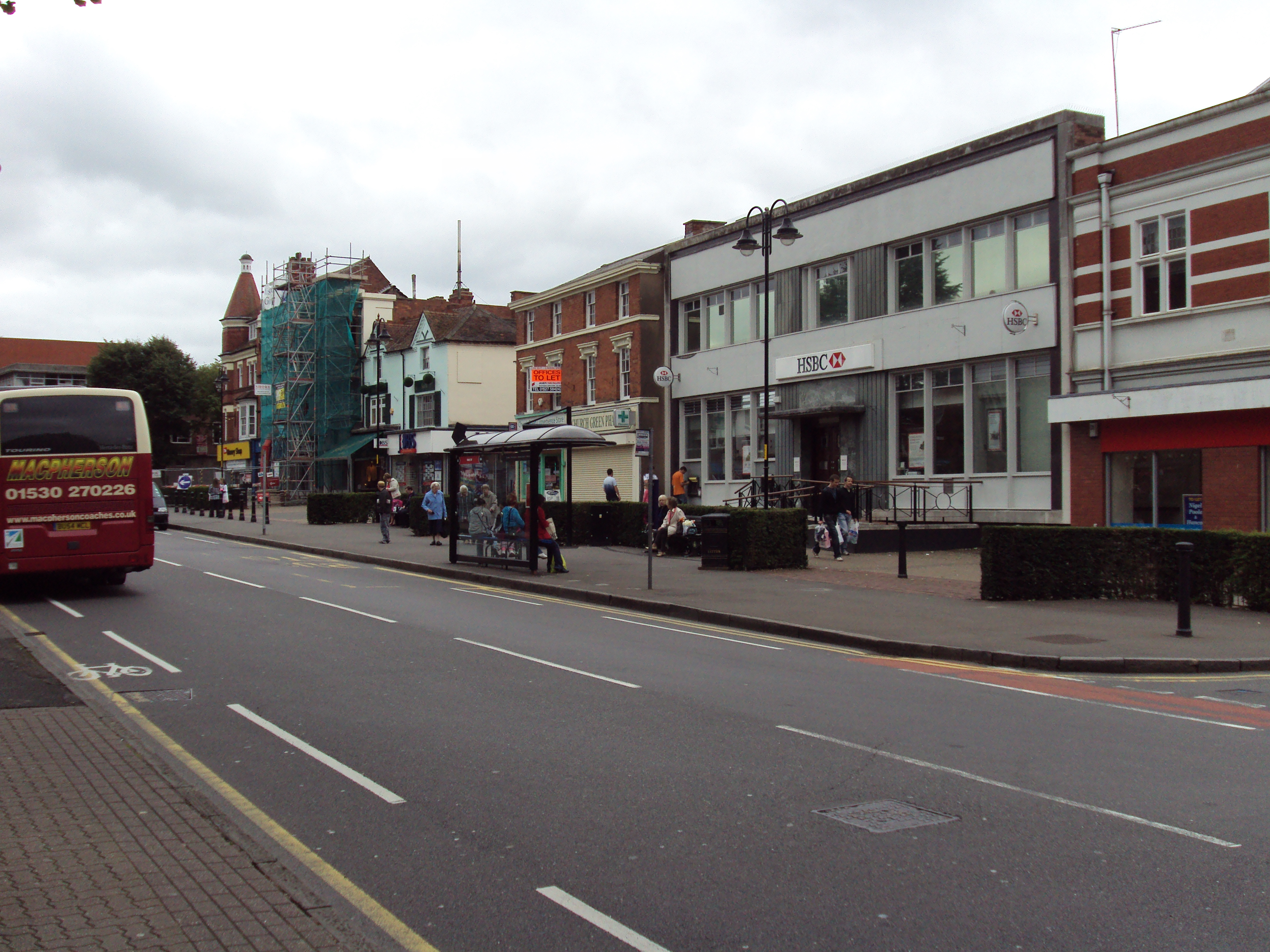 Church Green West, Redditch, Worcestershire, England.